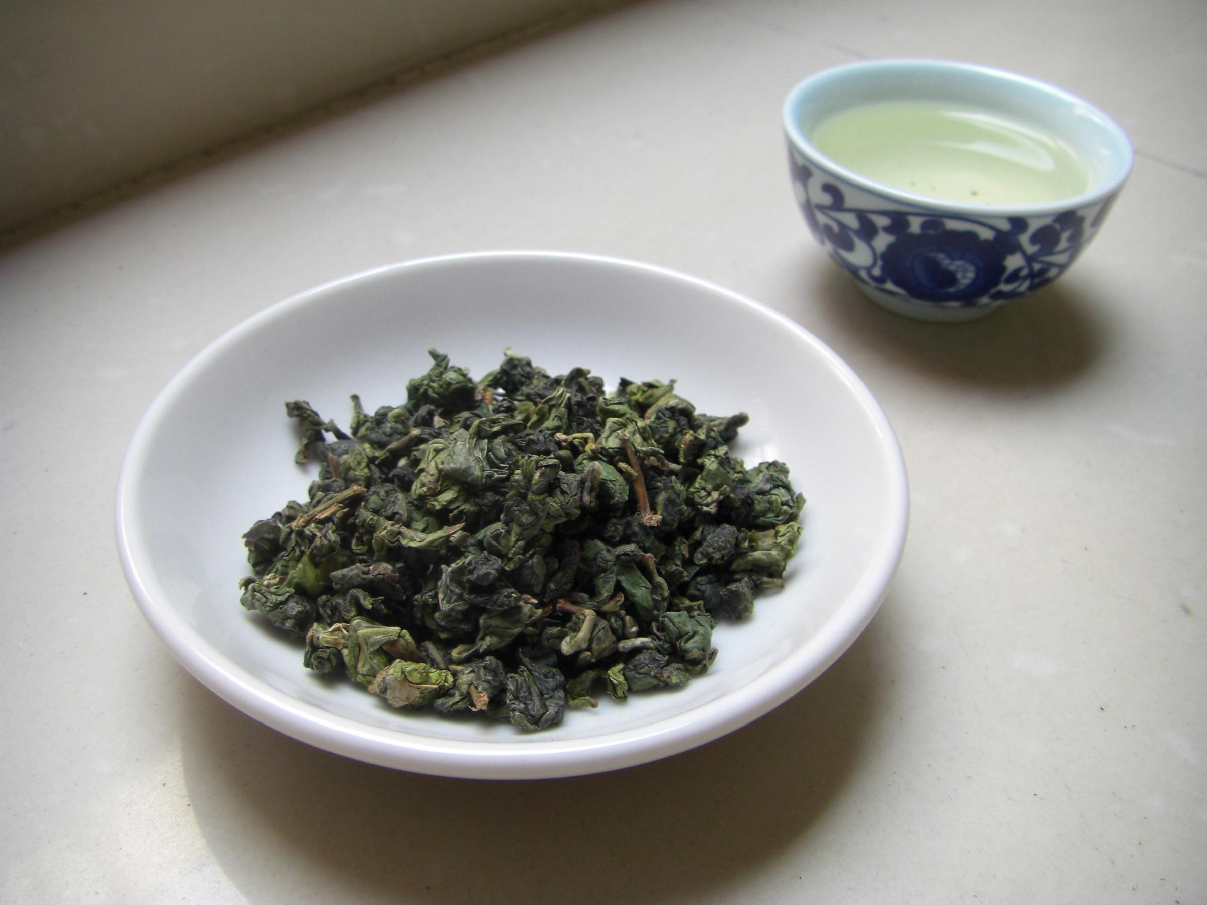 Tieguanyin tealeaves and a cup of tea in the background.